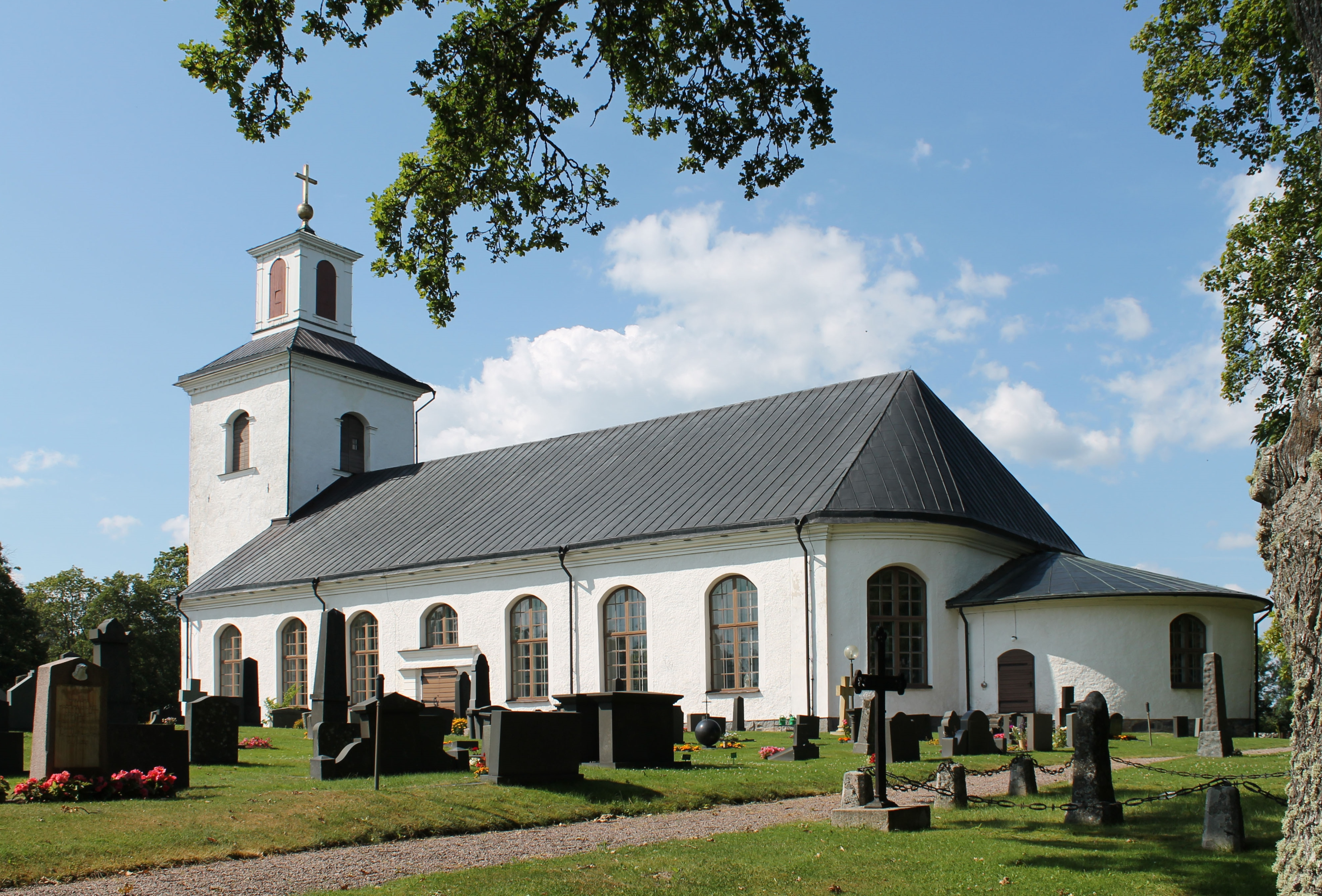 Hjortsberga Church.Exterior.